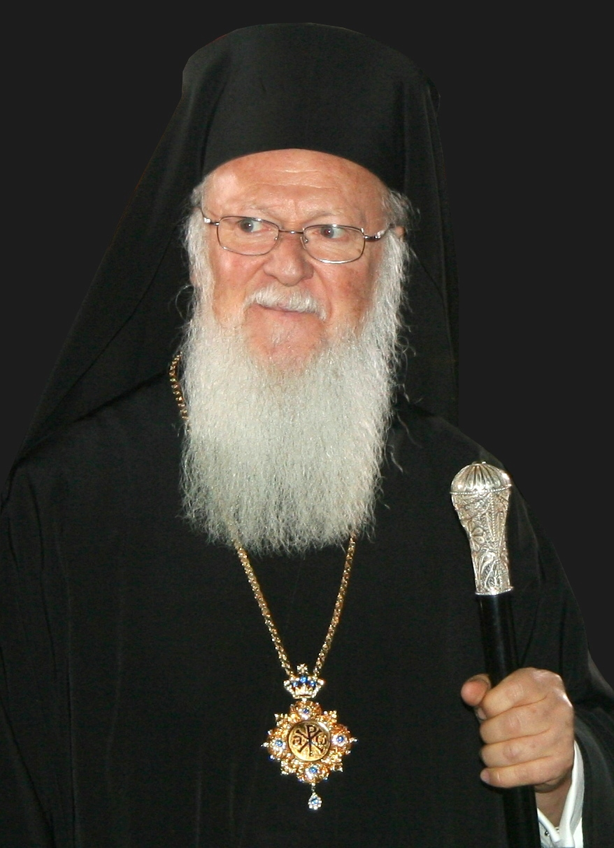 His All Holiness Ecumenical Patriarch Bartholomew I